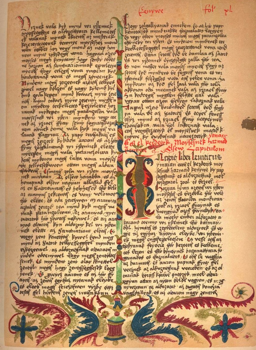 40th page of the Jordánszky-Codex